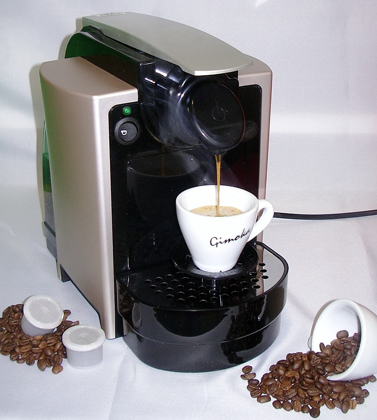 Diva Cup